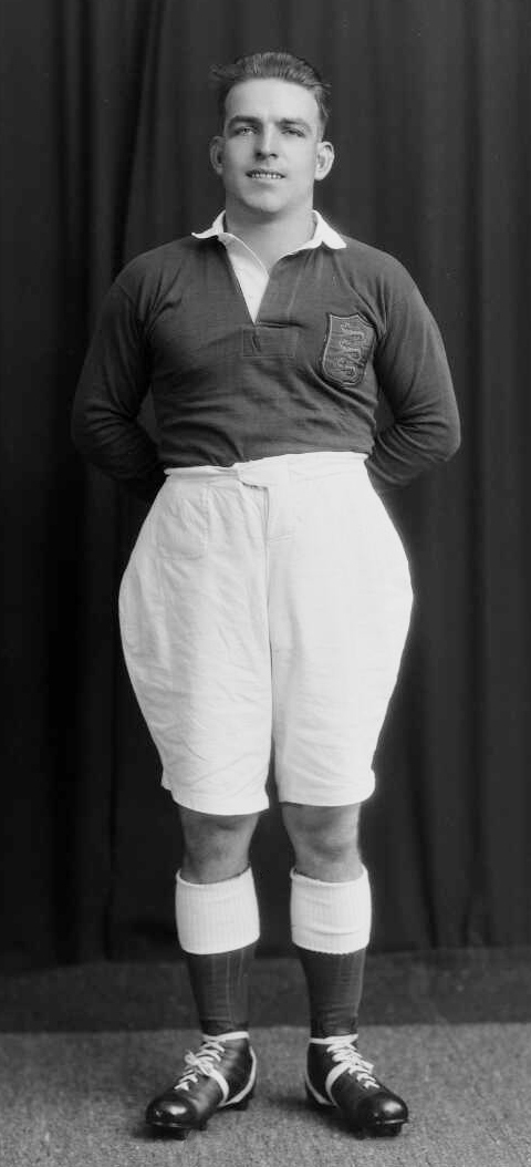 D Parker, member of the British Lions rugby union team